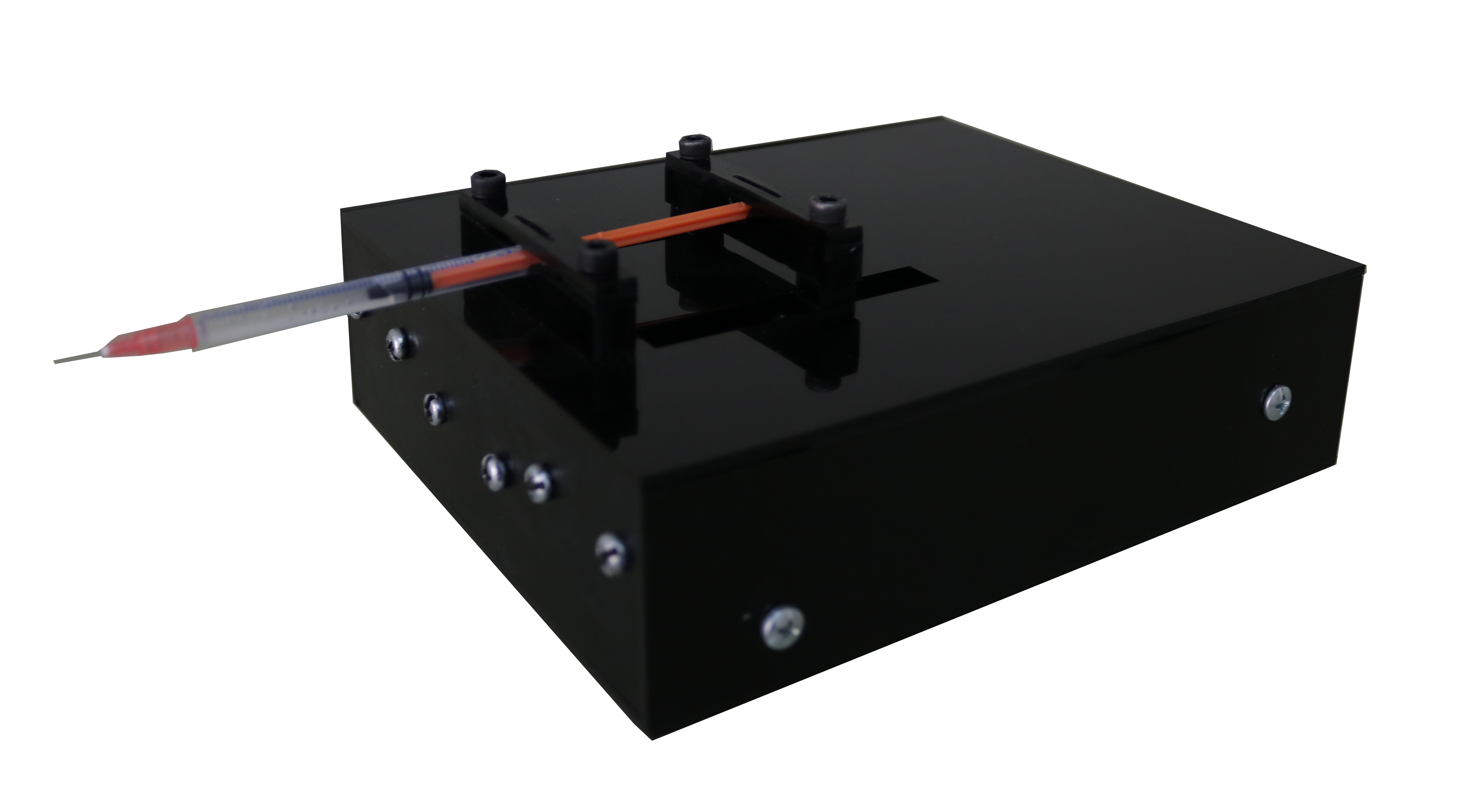 Syringe driver by PEMI Co.